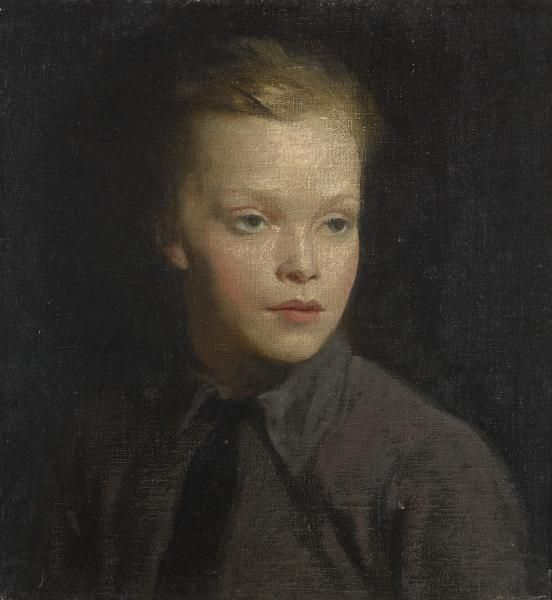 Portrait of Peter Hannen. 1915-1916. Oil on canvas by Glyn Philpot (1884-1937)